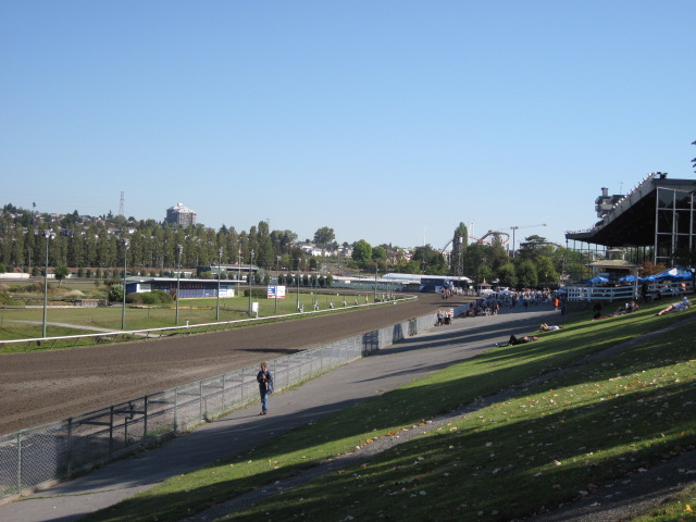 The track of Hastings Racecourse, in Vancouver, B.C., Canada.